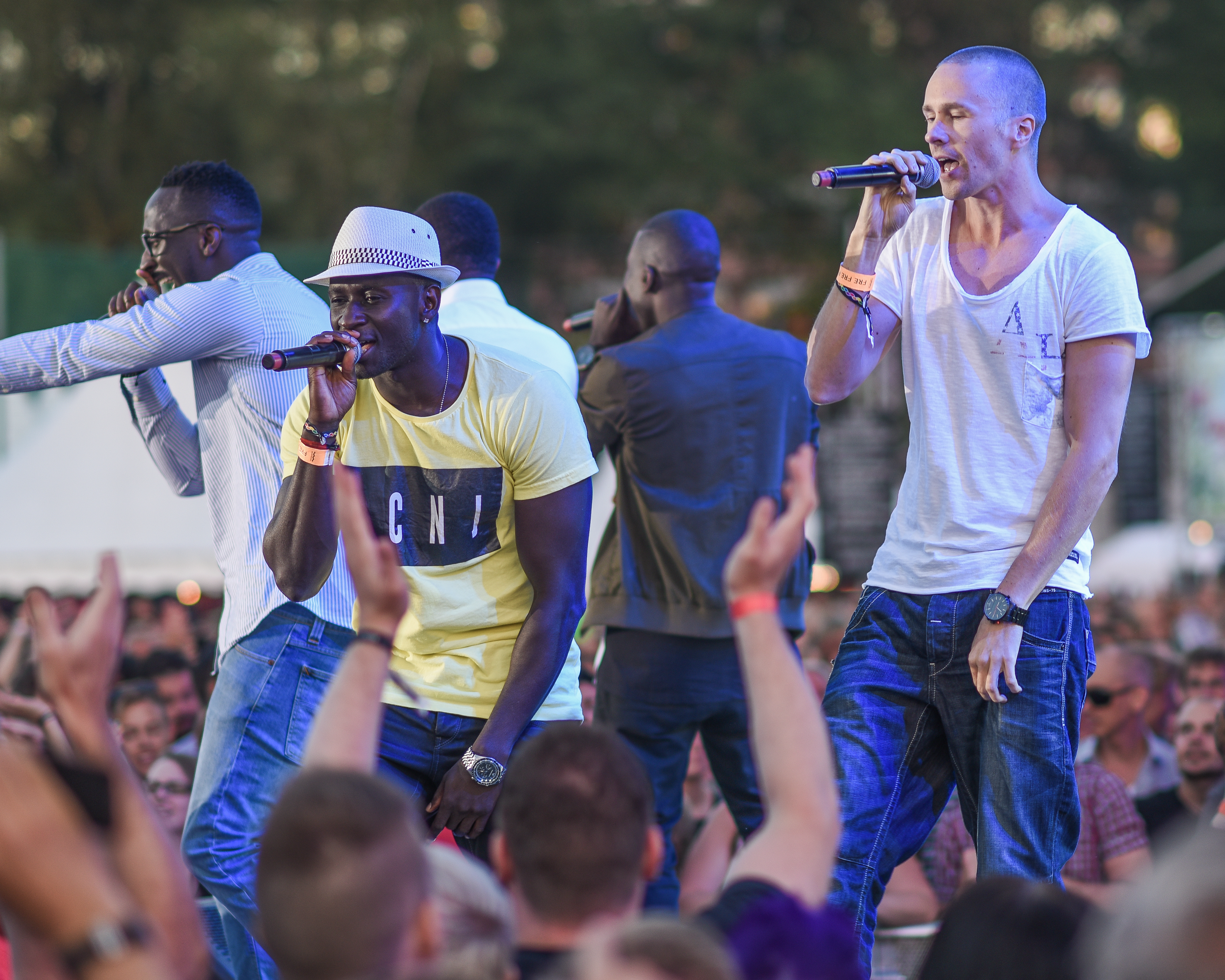 Panetoz at Stockholm Pride July 2014